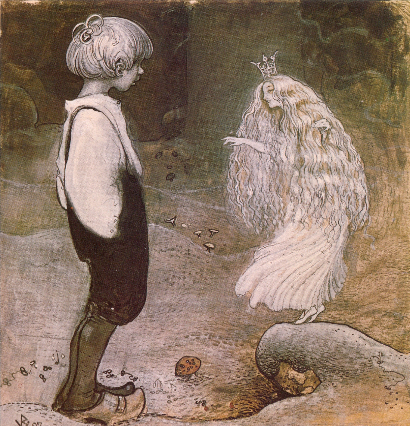 Illustration till Alfred Smedbergs De sju önskningarna i Julbocken, 1907 *Source: Illustration of Alfred Smedberg's The seven wishes in Julbocken, 1907